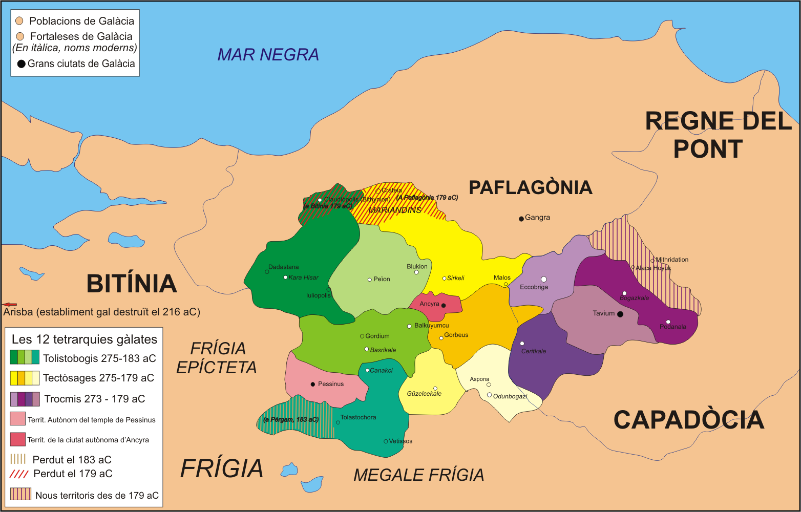 Map of Galatia 277-179 aC. The twelve tetrarchies